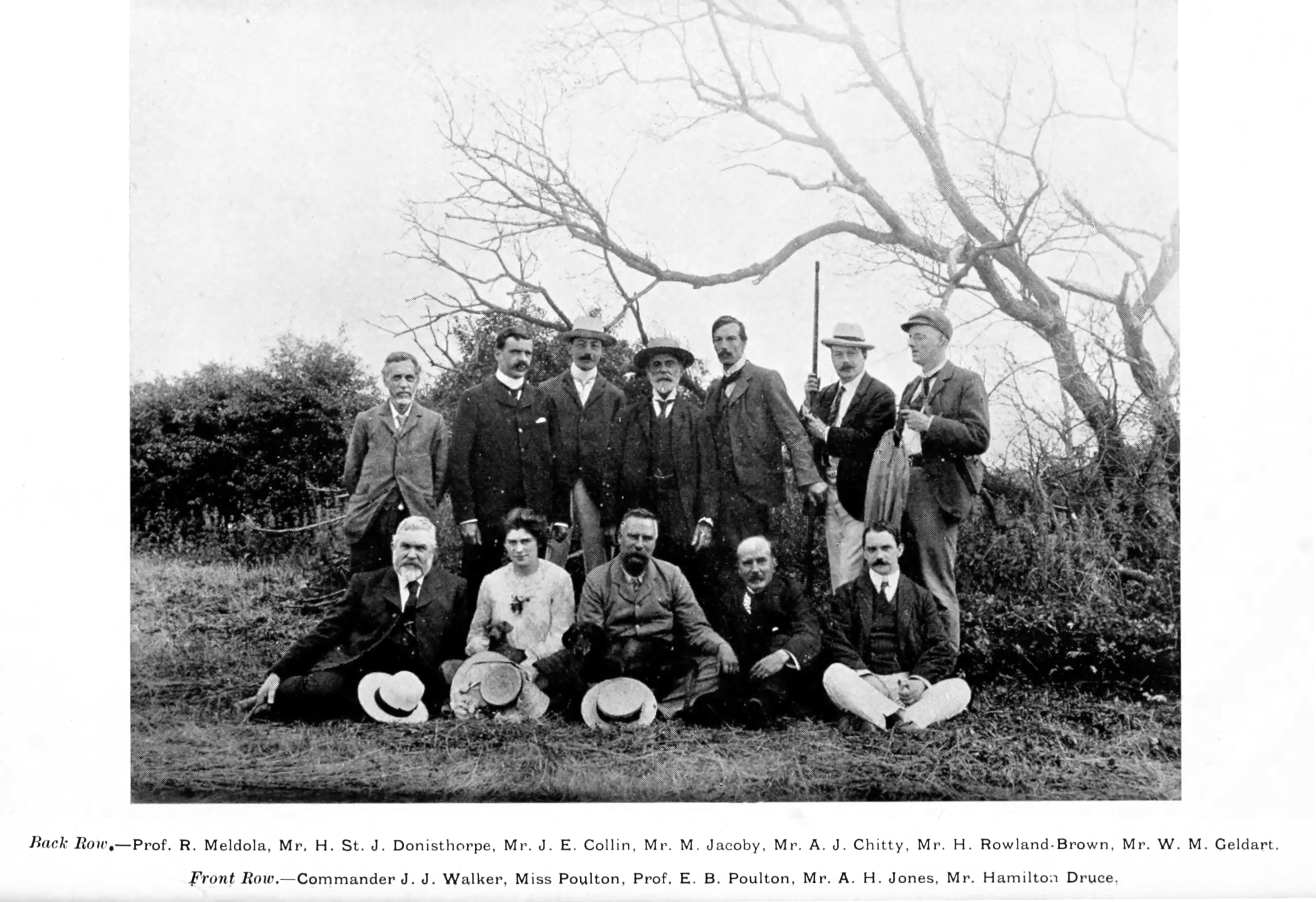 Members of the Entomological Society of London in 1904